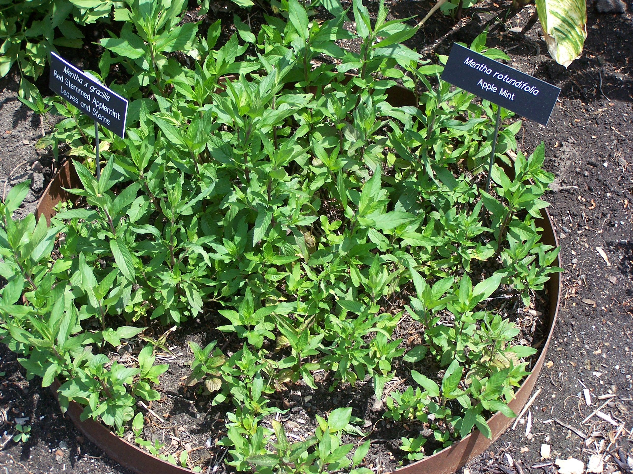 Mentha × gracilis (Red stemmed applemint) at Minnesota Landscape Arboretum